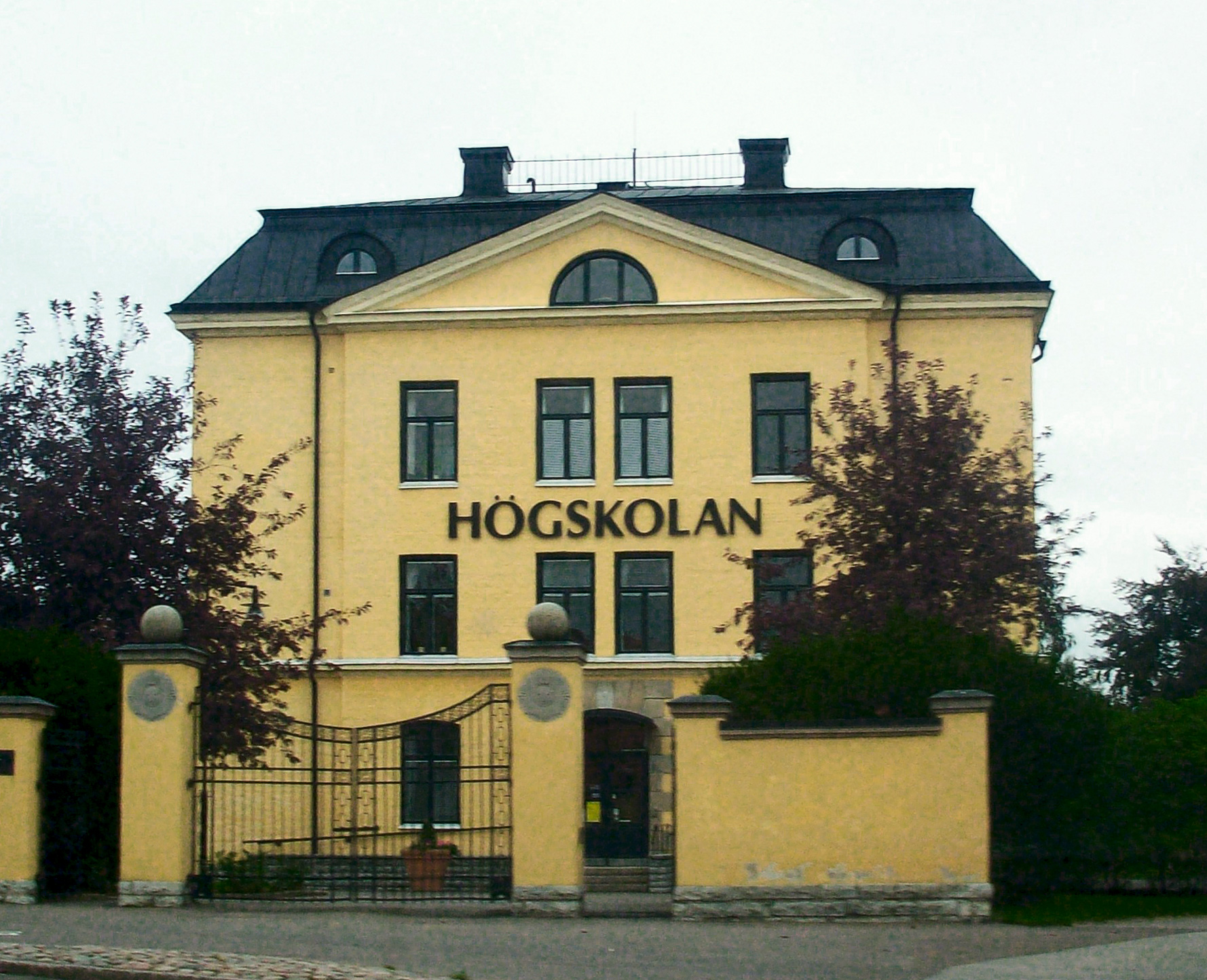 Collage in Skövde